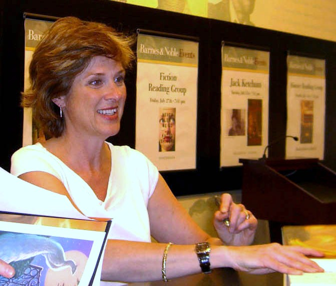 Illustrator Mary GrandPré at the Barnes & Noble in Manhattan's Lincoln Square on July 21, 2007, the day Harry Potter and the Deathly Hallows, the final novel in the Harry Potter series, was published. This photo was created by Luigi Novi. It is not in the public domain, and use of this file outside of the licensing terms is a copyright violation.